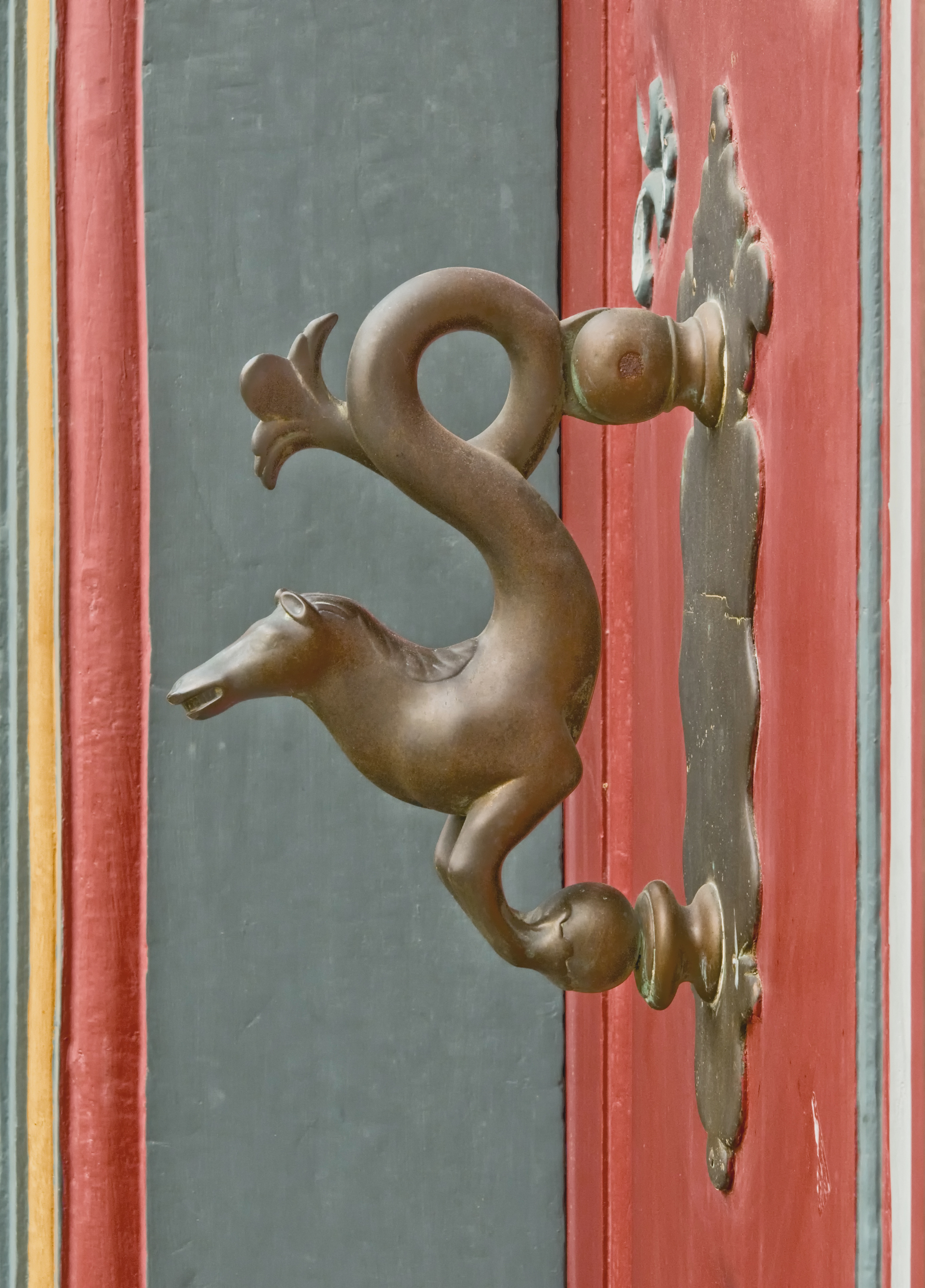 Door knocker with the name "Brunswick Horse" at the front door of a half-timbered house dating from the year 1719 in the city center of Goslar in Lower Saxony, Germany.